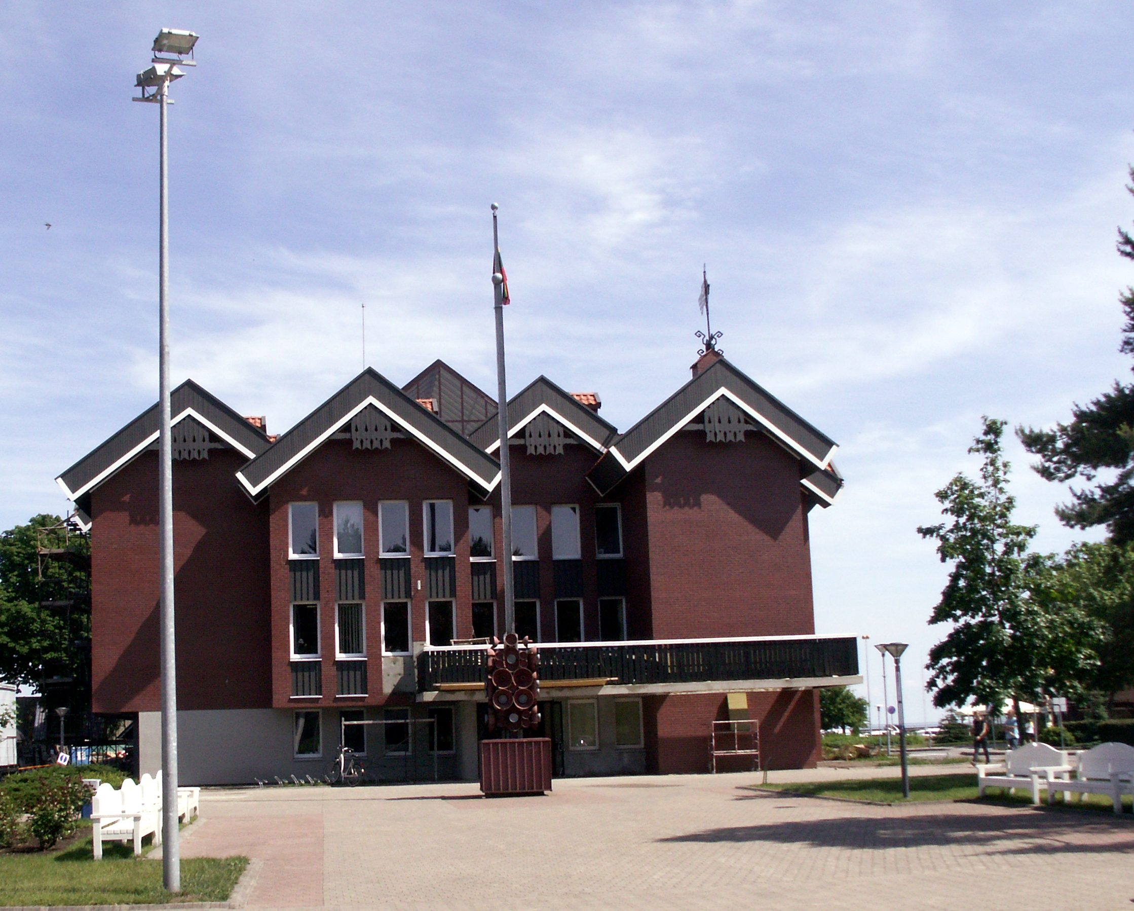 Neringa cityhall in Nida,, Lithuania